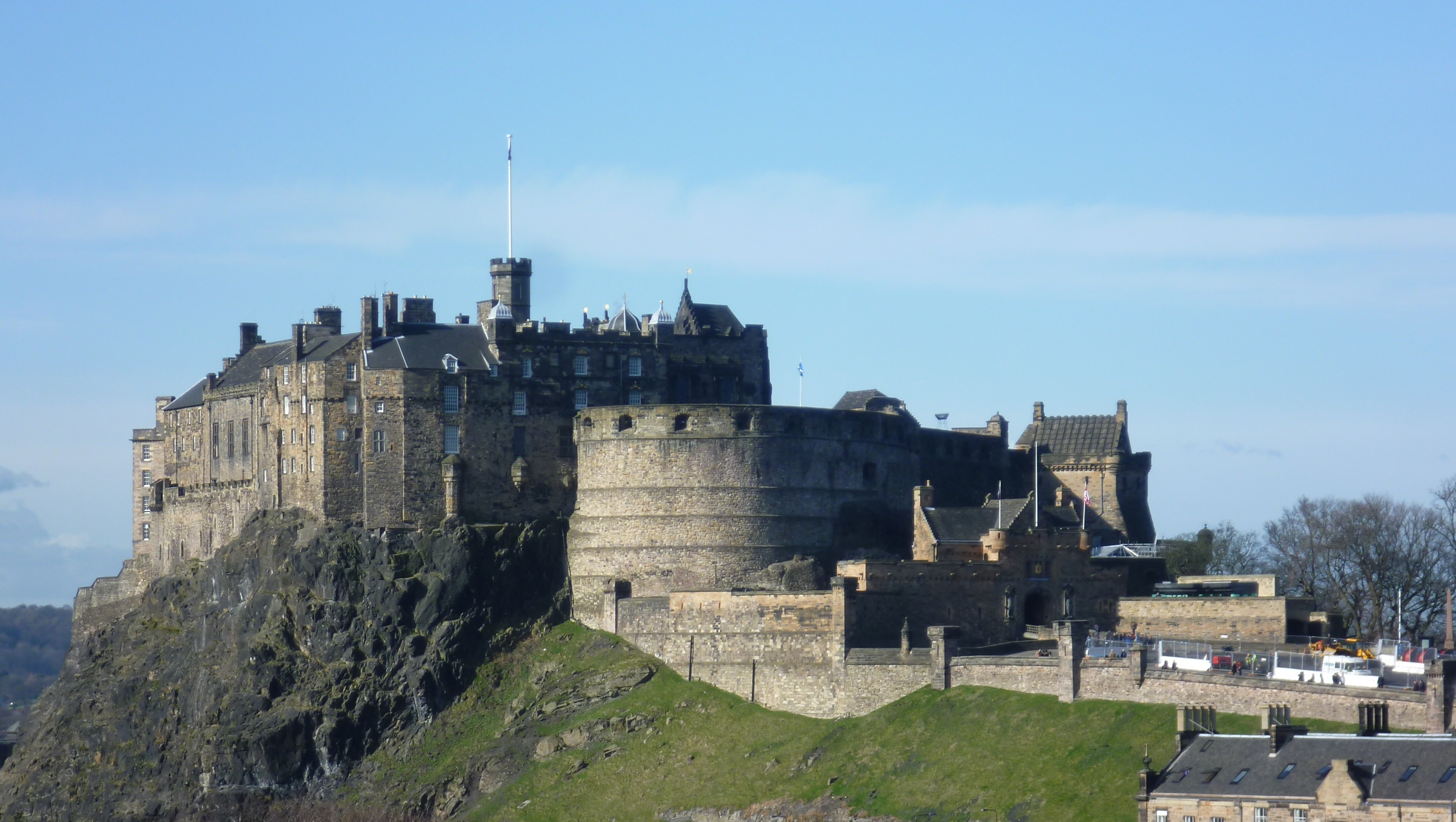 "The South or South East angle of the Castle is greatly superior to any other view of it, though it is magnificent everywhere." -- Joseph Farington, English landscape painter, 1788